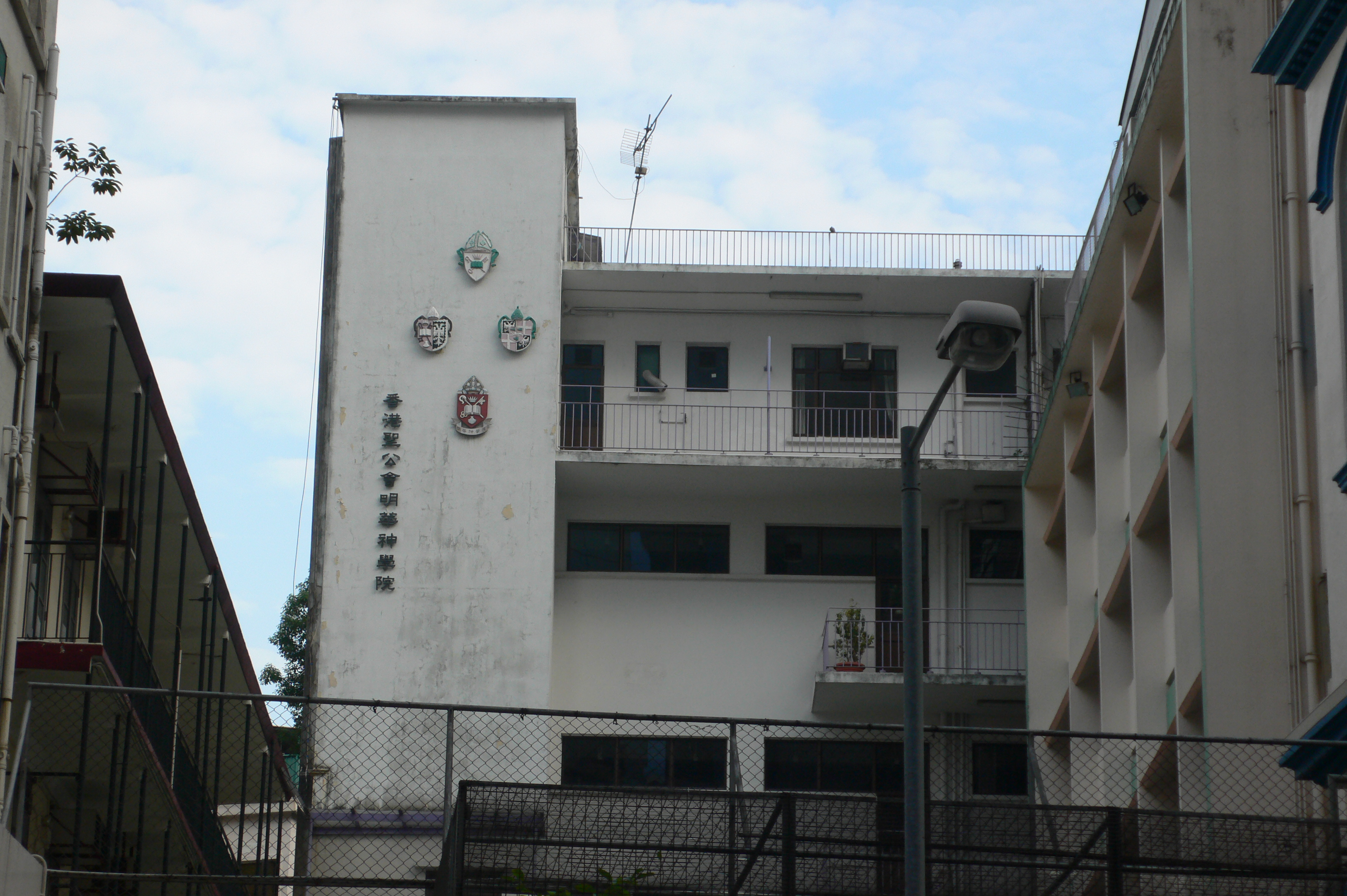 Sheng Kung Hui Ming Hua Theological College in Central District, Hong Kong